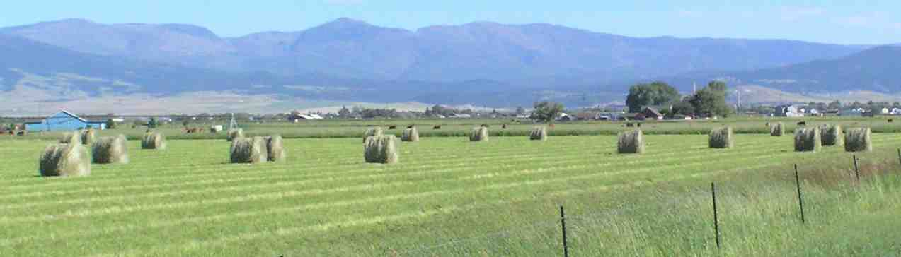 A hayfield of round bales in Montana